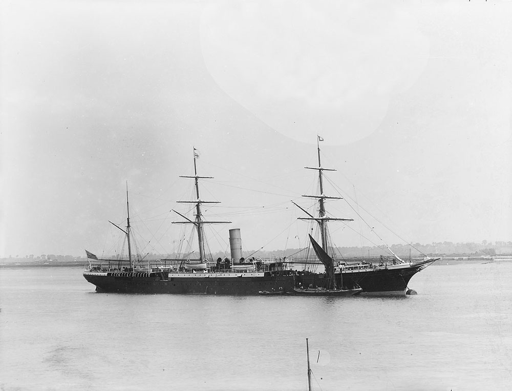 The steamship Tongariro (New Zealand).Reproduction ID:G2156 Maker: UnknownDate: 1883